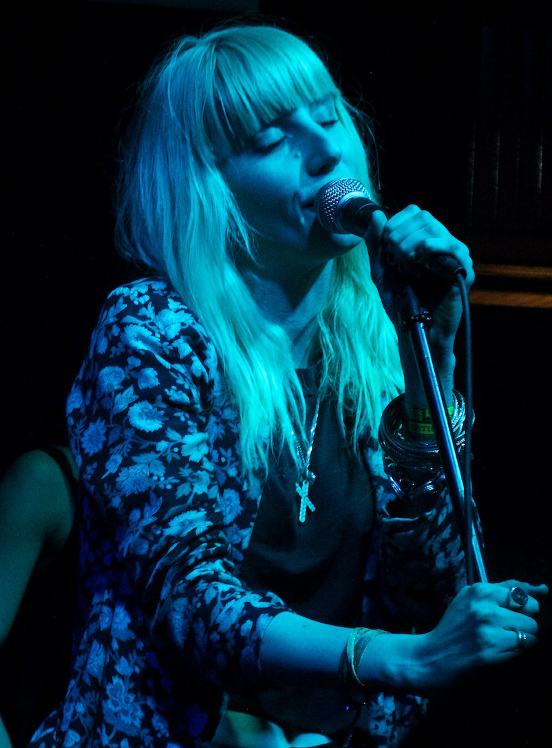 Mish-Barber Way performing with White Lung at SXSW Music in 2013.